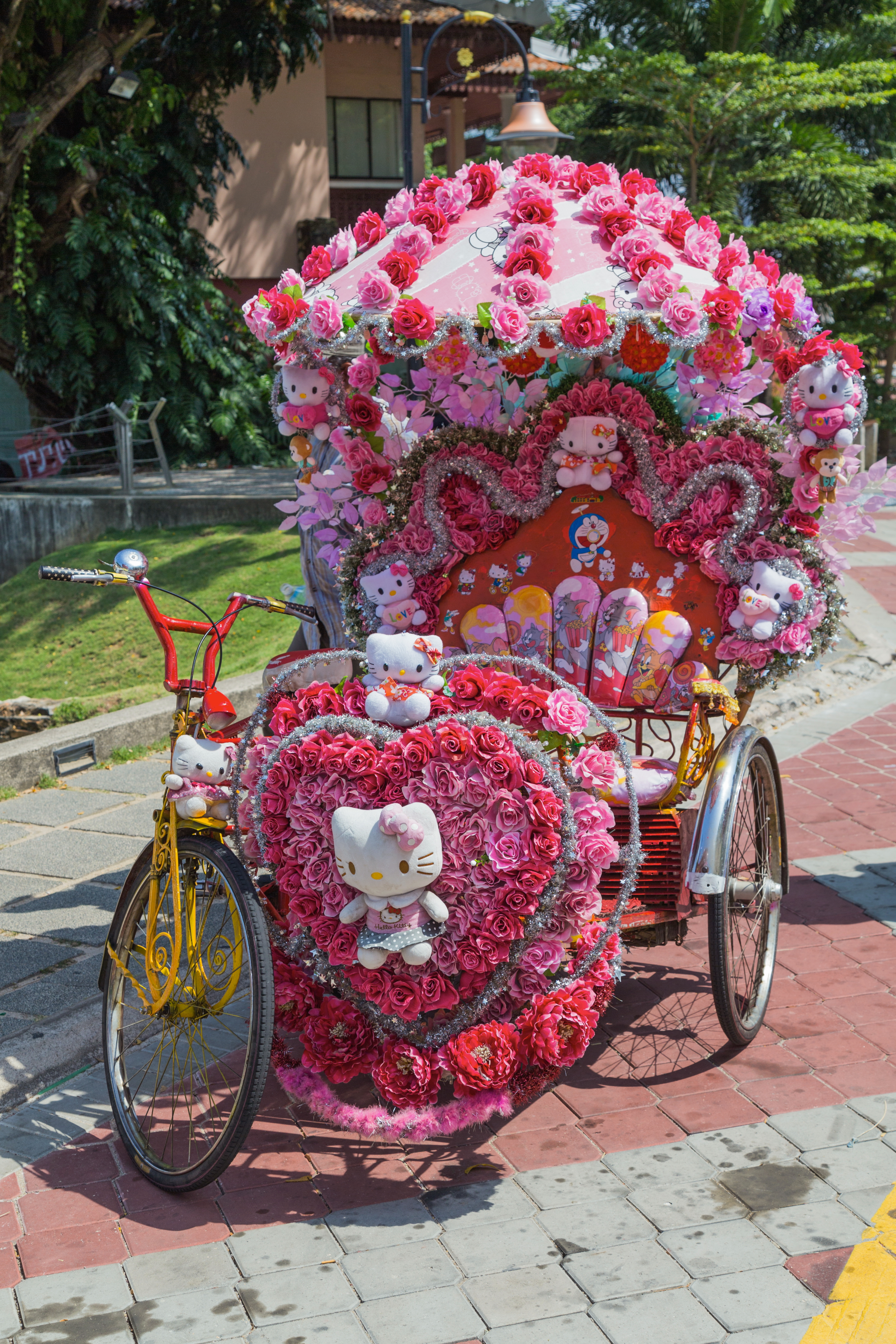 Colourful cycle rickshaw. Malacca City, Malacca, Malaysia.